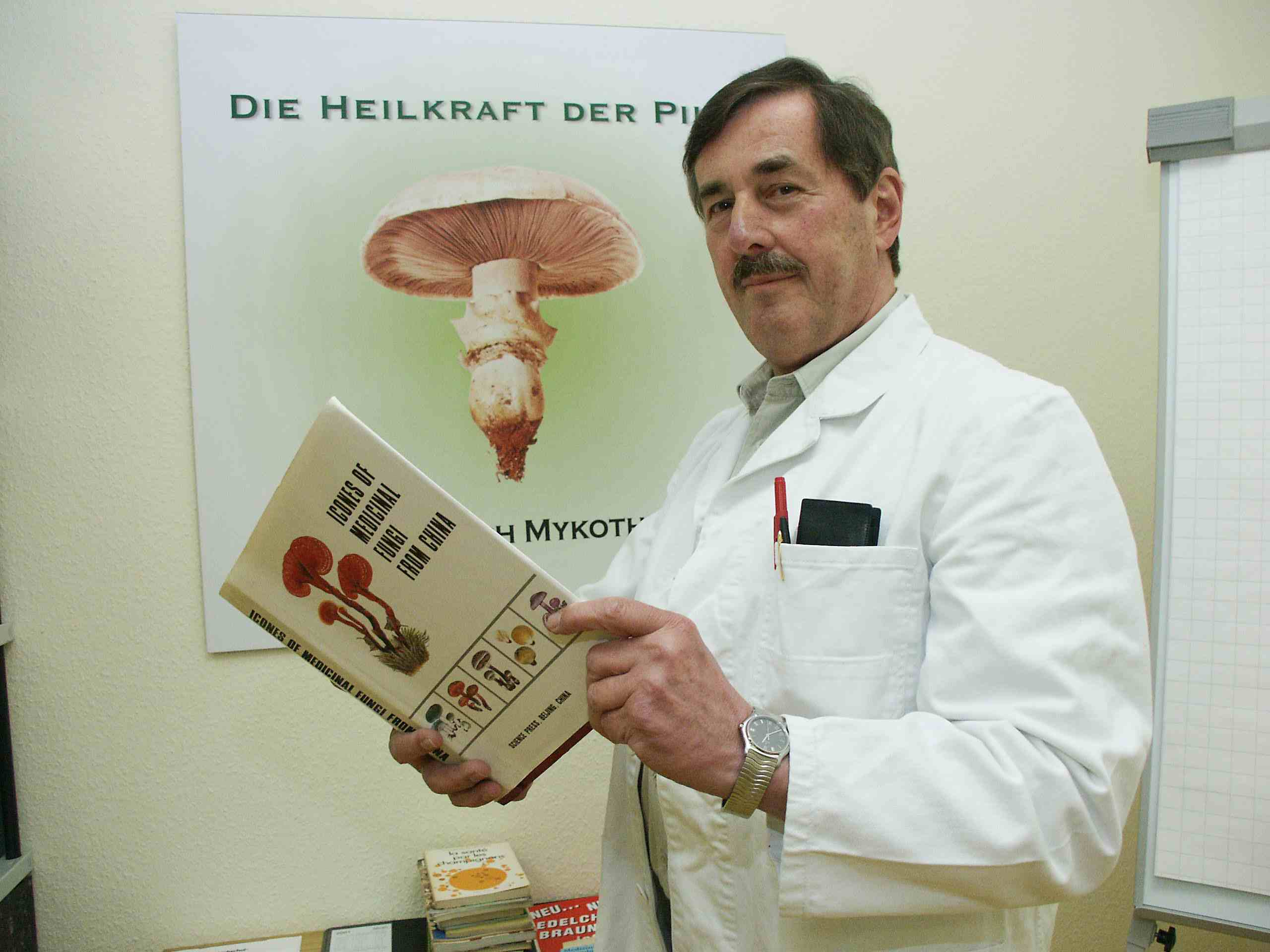 Prof. Dr. Dr. h.c. Jan Ivan Lelley